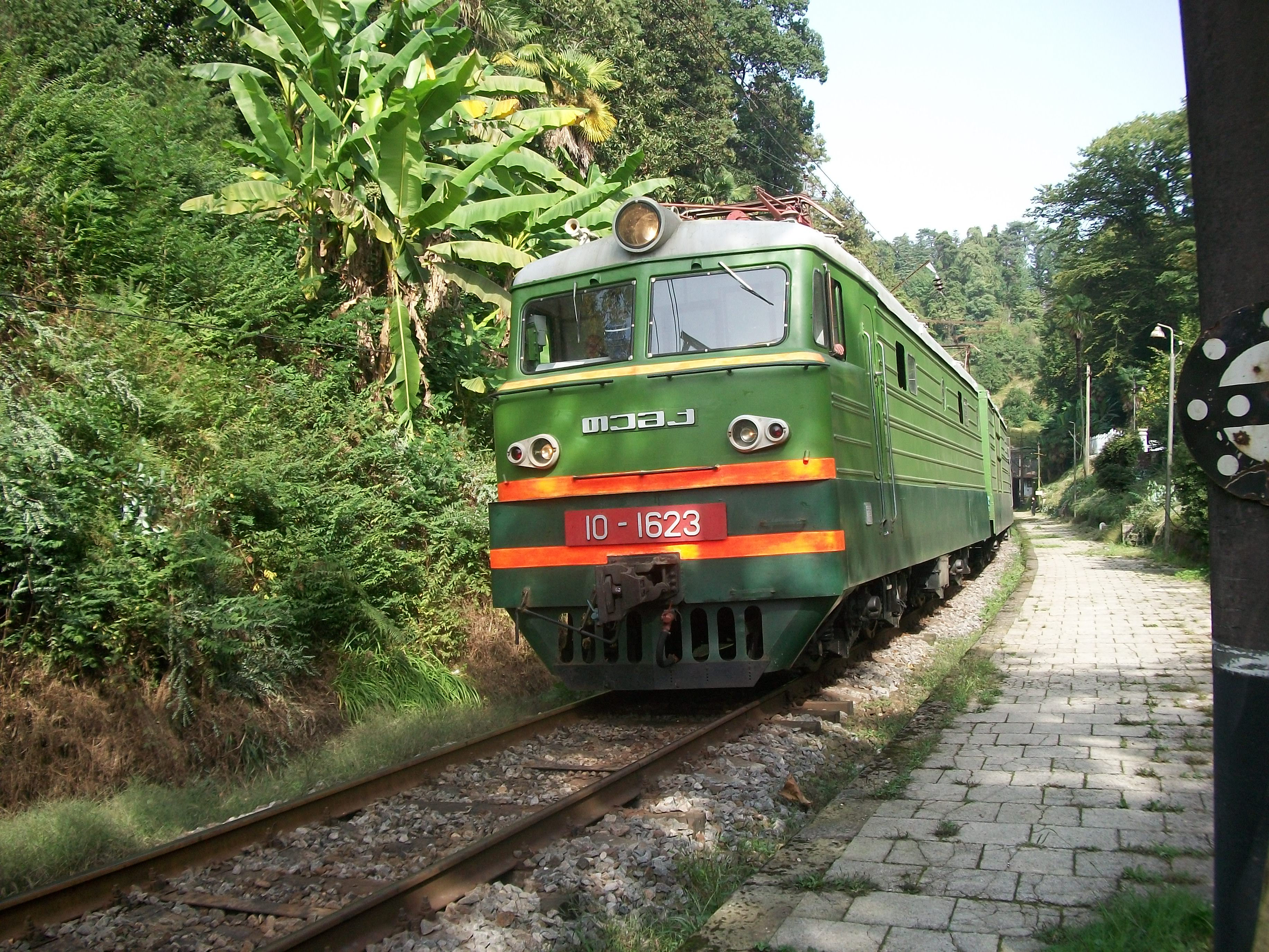 Railway Lines in Georgia